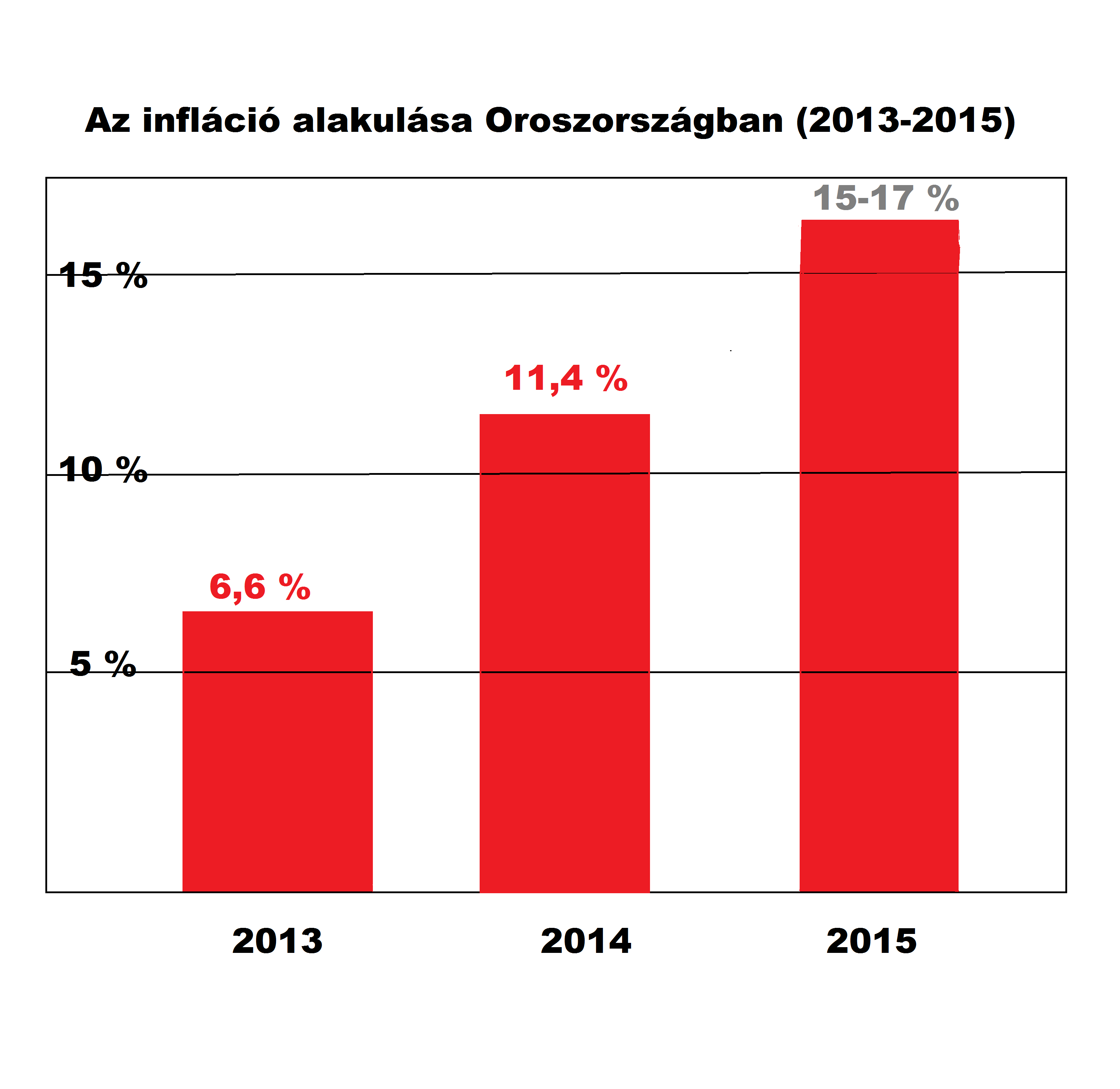 The inflation rate in Russia between 2013 and 2015.